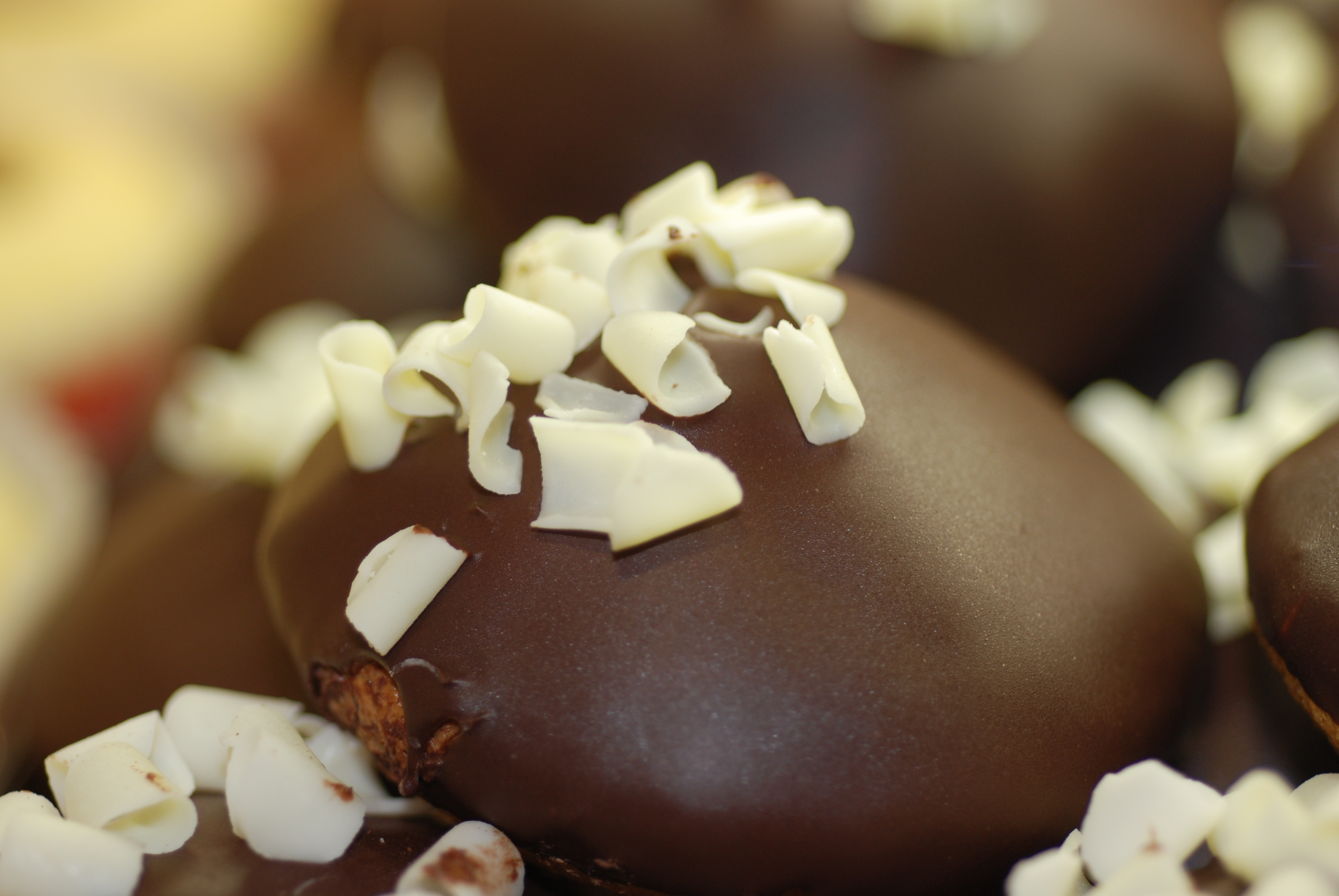 Stockholm, Sweden. One of my shots from the pastry counter at a Stockholm grocery store.